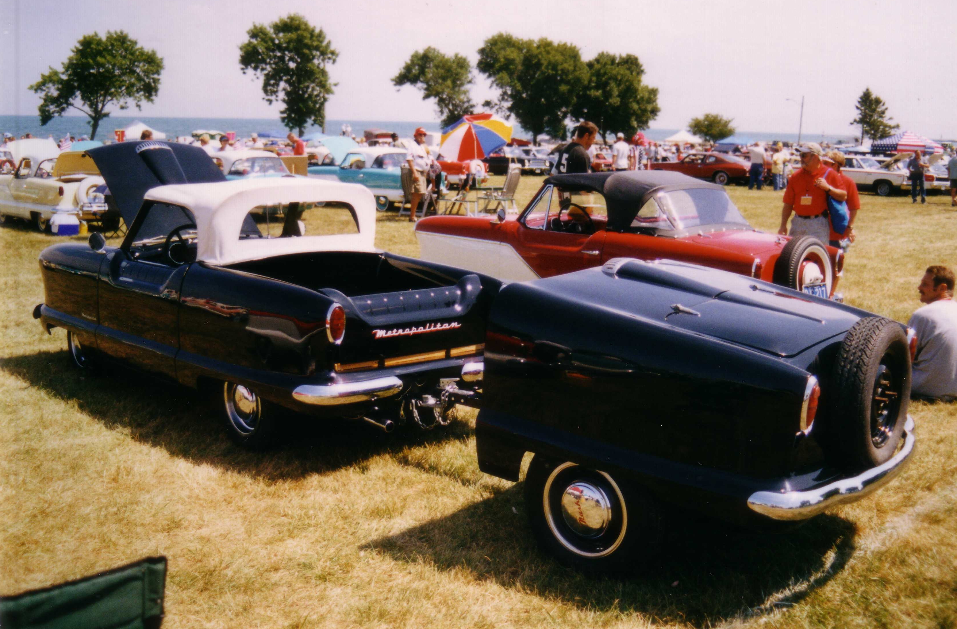 Nash Metropolitan conversion into a super-mini custom pick-up truck with a matching trailer. The cargo trailer was made by radically shortening a second Metropolitan. Picture taken during the Metropolitan Automobile Car Club meet held in Kenosha, Wisconsin. Part of the "100th Anniversary Celebration of the Rambler" events that was held in the park overlooking Lake Michigan.